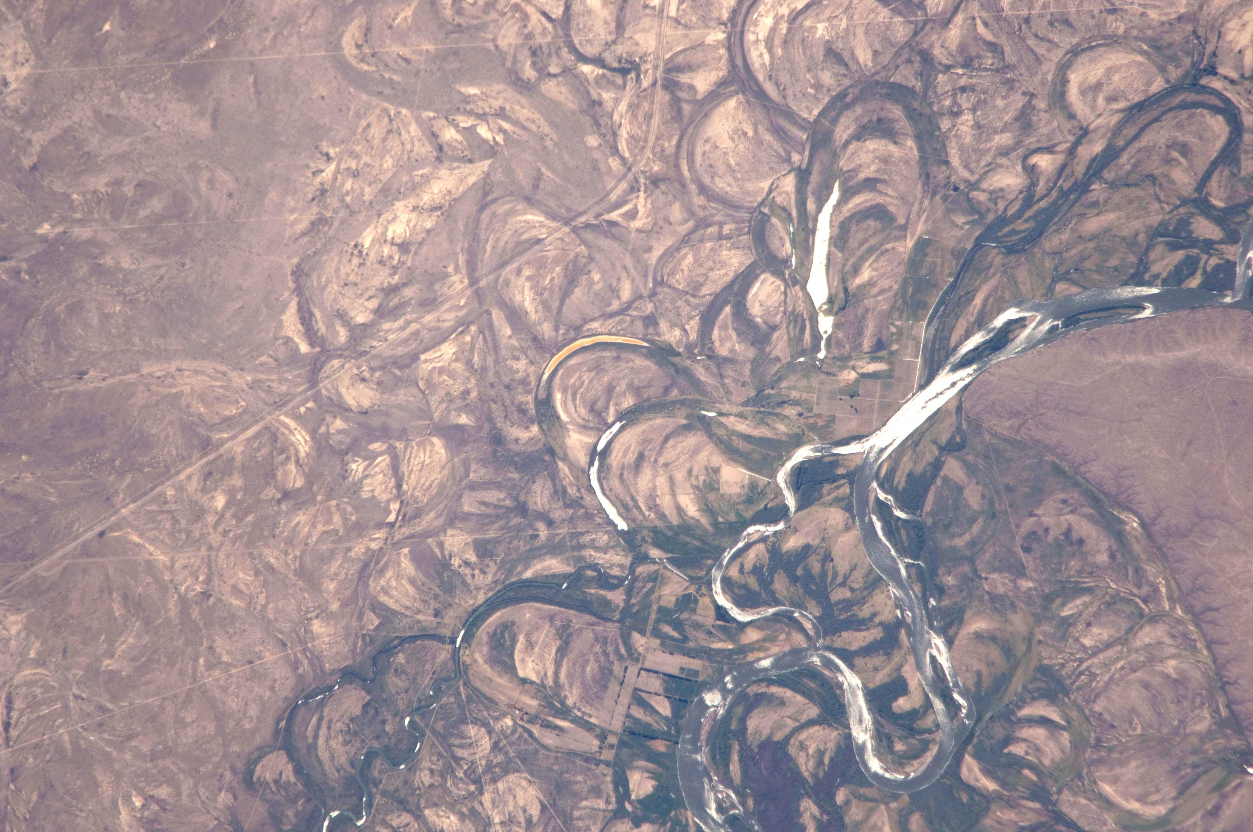 Country or Geographic Name: ARGENTINA Features: RIO NEGRO, COLONEL JOSEFA AREA, FLOOD PLAIN Center Point Latitude: -39.8 Center Point Longitude: -65.4